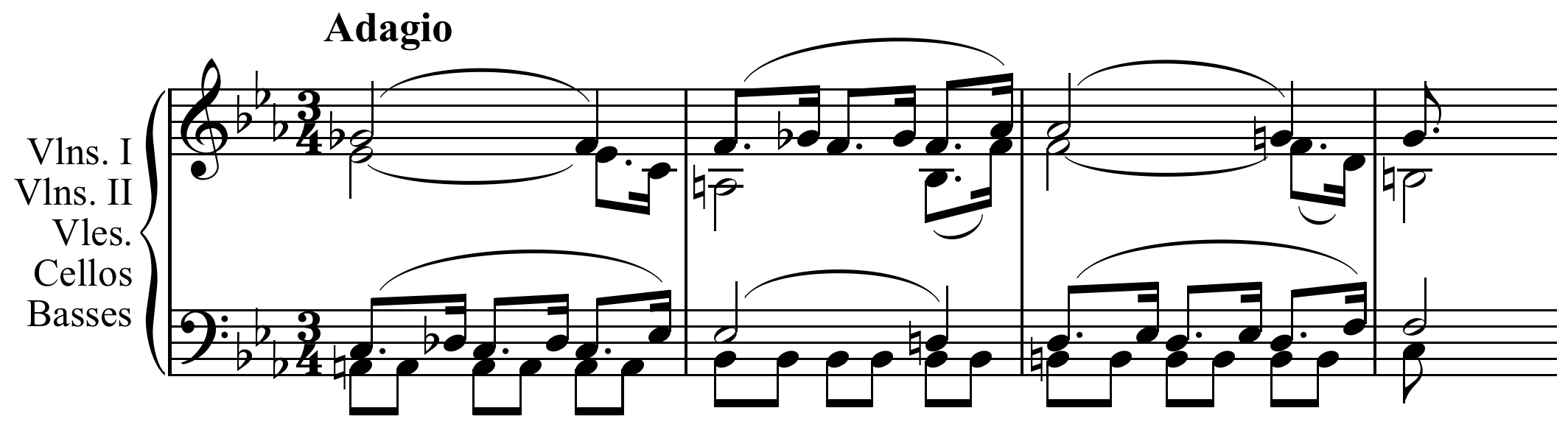 Created by Hyacinth (talk) 22:32, 6 August 2005 using Sibelius 5. Example of dissonance in Mozart's Adagio and Fugue in C minor KV. 546. This music image could be recreated using vector graphics as an SVG file. This has several advantages; see Commons:Media for cleanup for more information. If an SVG form of this image is available, please upload it and afterwards replace this template with vector version available|new image name . It is recommended to name the SVG file "Dissonance in Mozart counterpoint.svg" - then the template Vector version available (or Vva) does not need the new image name parameter. Source Marquis, G. Welton (1964). Twentieth Century Music Idioms. Englewood Cliffs, New Jersey: Prentice-Hall, Inc.